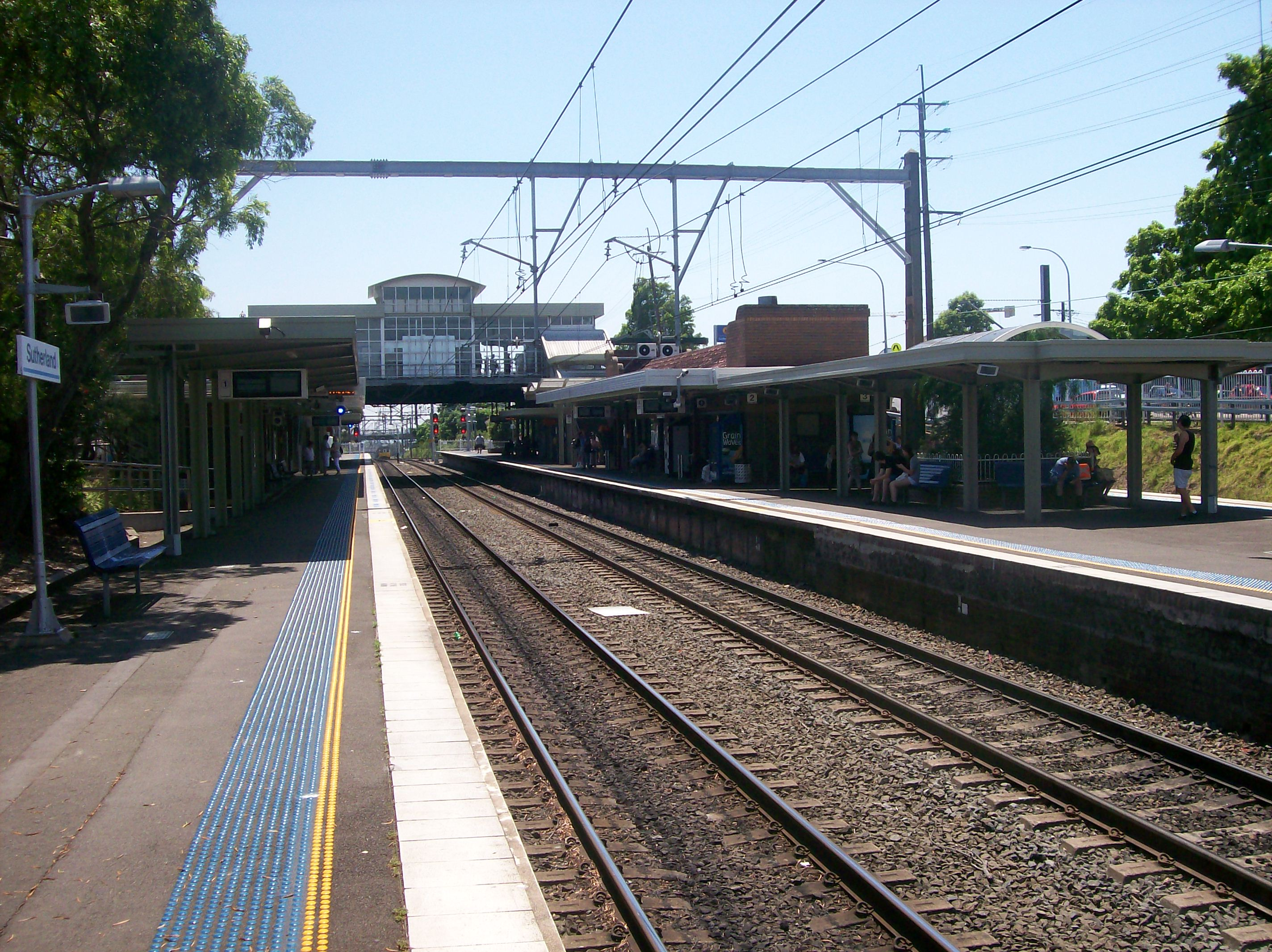 Sutherland railway station